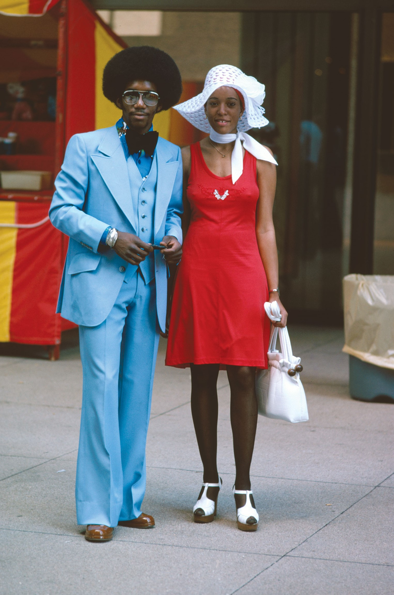 Well dressed couple, Michigan Avenue, Chicago, July 1975.